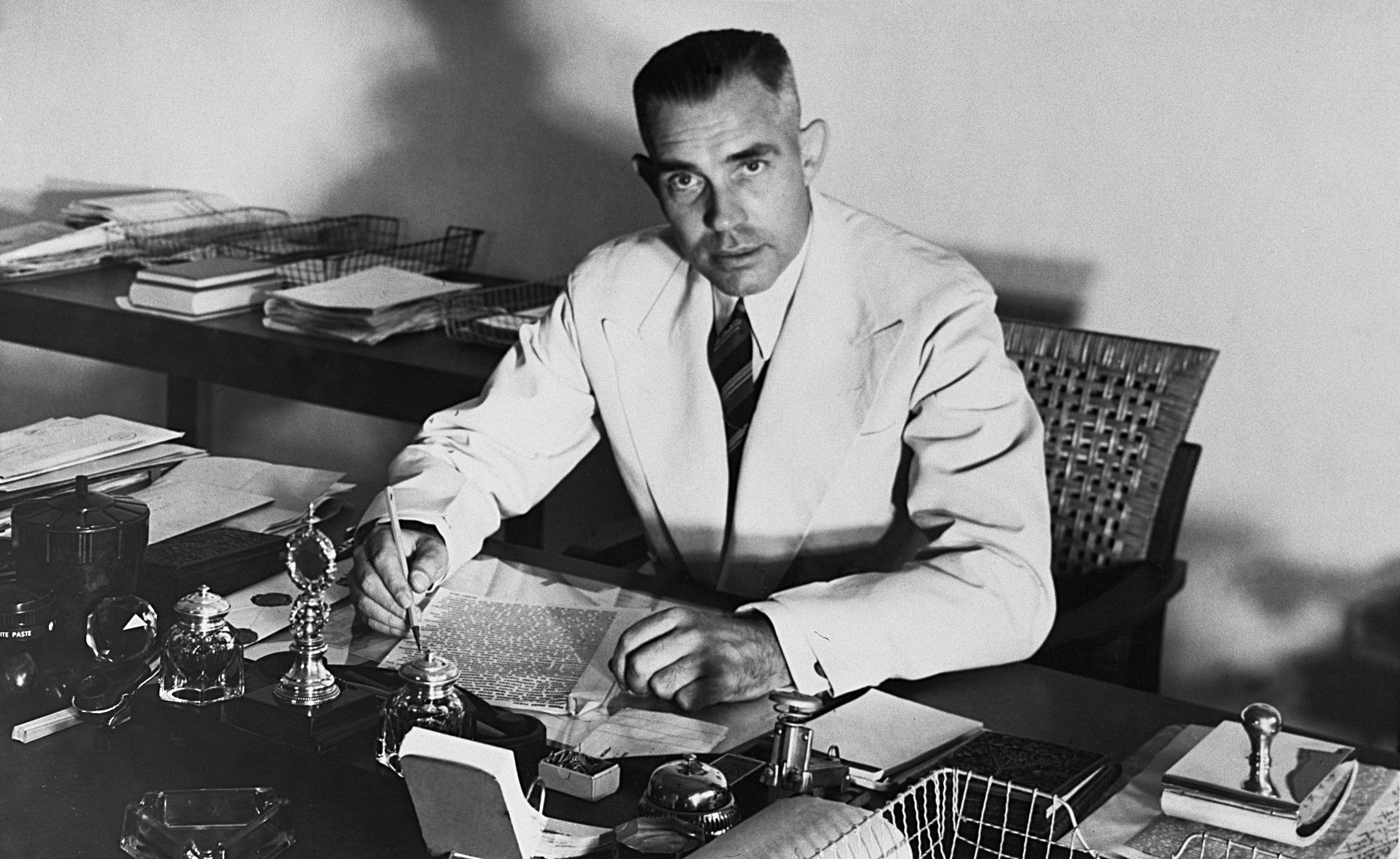 Antonius Hermanus Johannes "Tony" Lovink (1902-1995), former Netherlands-Indies government official and diplomat.